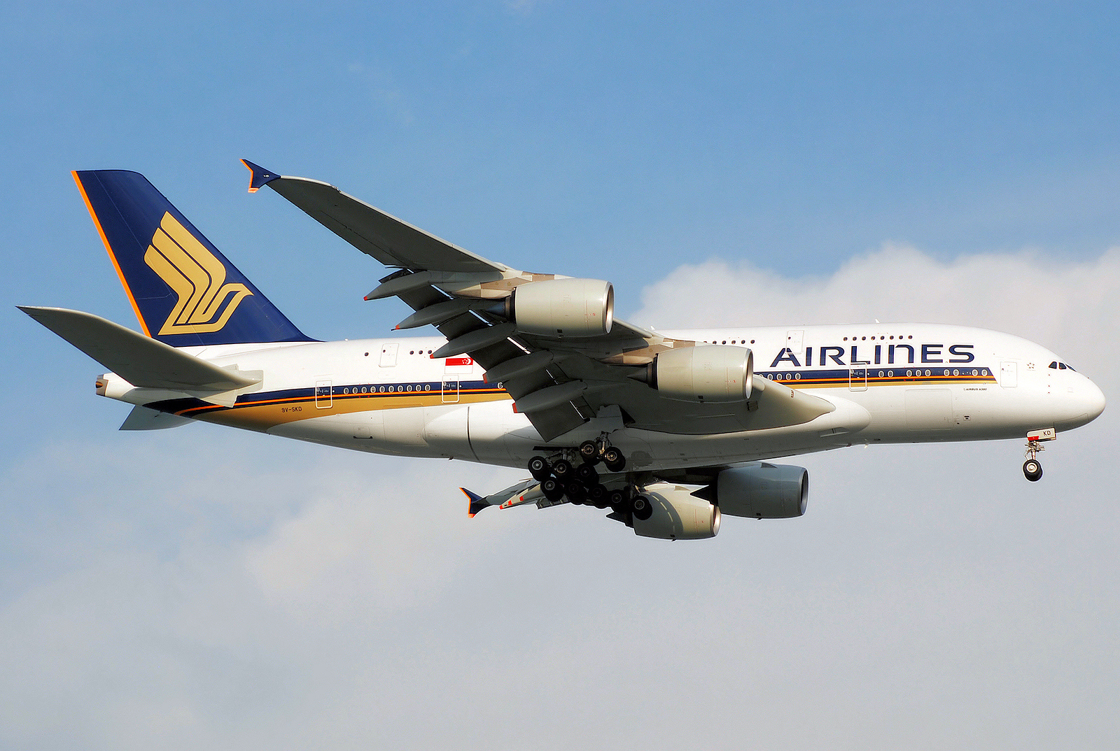 Singapore Airlines Airbus A380-841 (9V-SKD) landing on Runway 20R at Singapore Changi Airport. 中文（新加坡）: 新加坡航空公司空中巴士A380-841 (9V-SKD)在新加坡樟宜机场20R跑道降落。